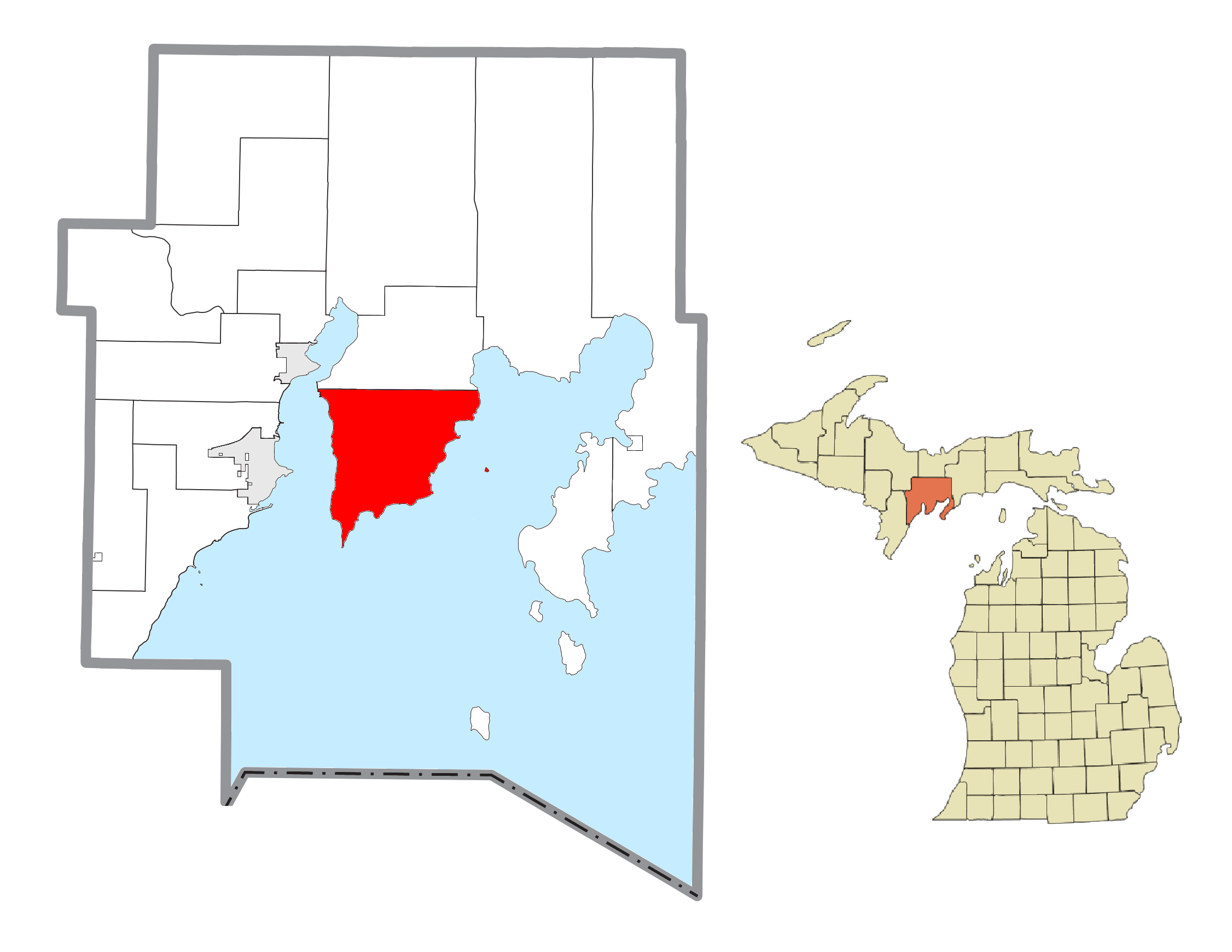 Bay de Noc Township, MI